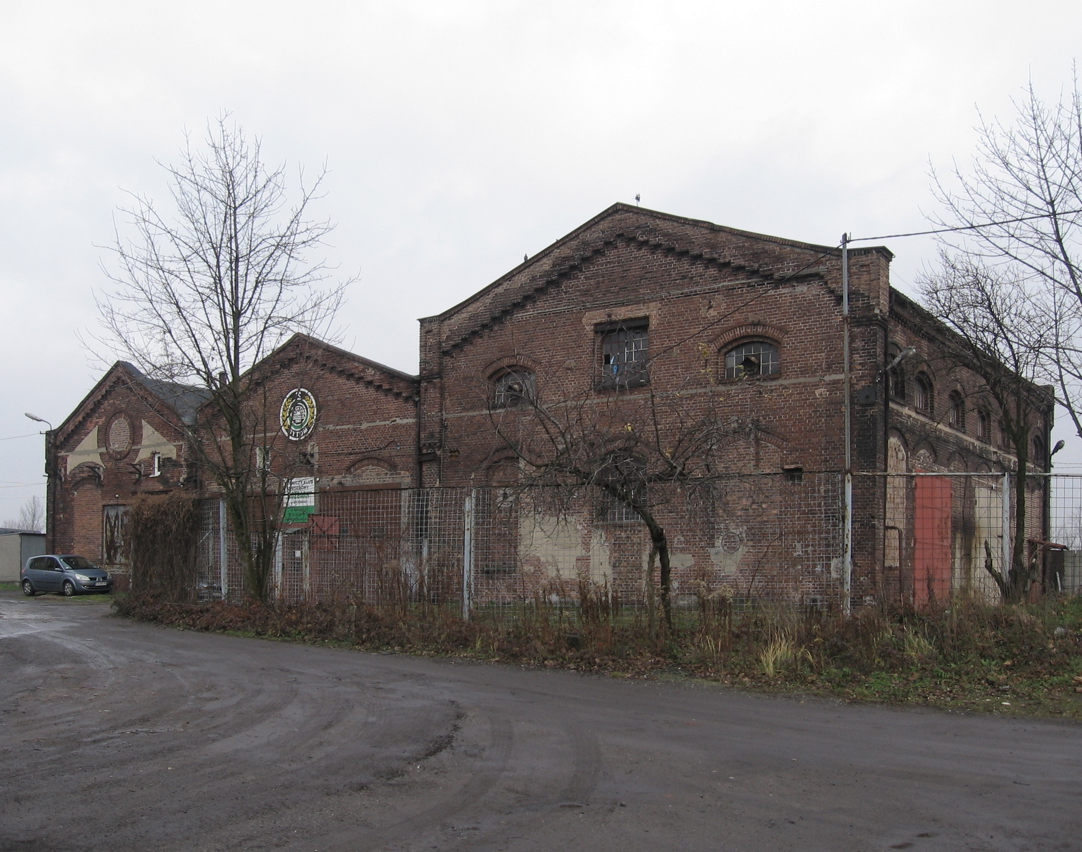 Buildings near former Carnallsfreunde (Karola Miarki) shaft of Florentine coal mine (later Łagiewniki, Rozbark) in Bytom, now Arki Bożka neighbourhood.